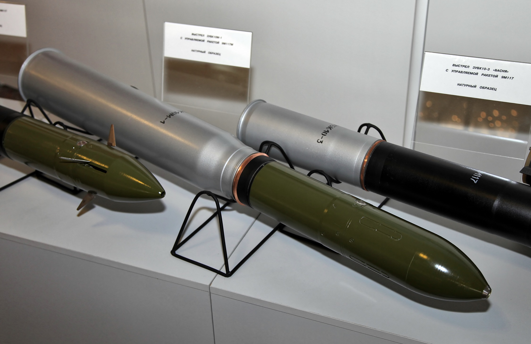 3UBK10M-1 with 9M117M ATGM